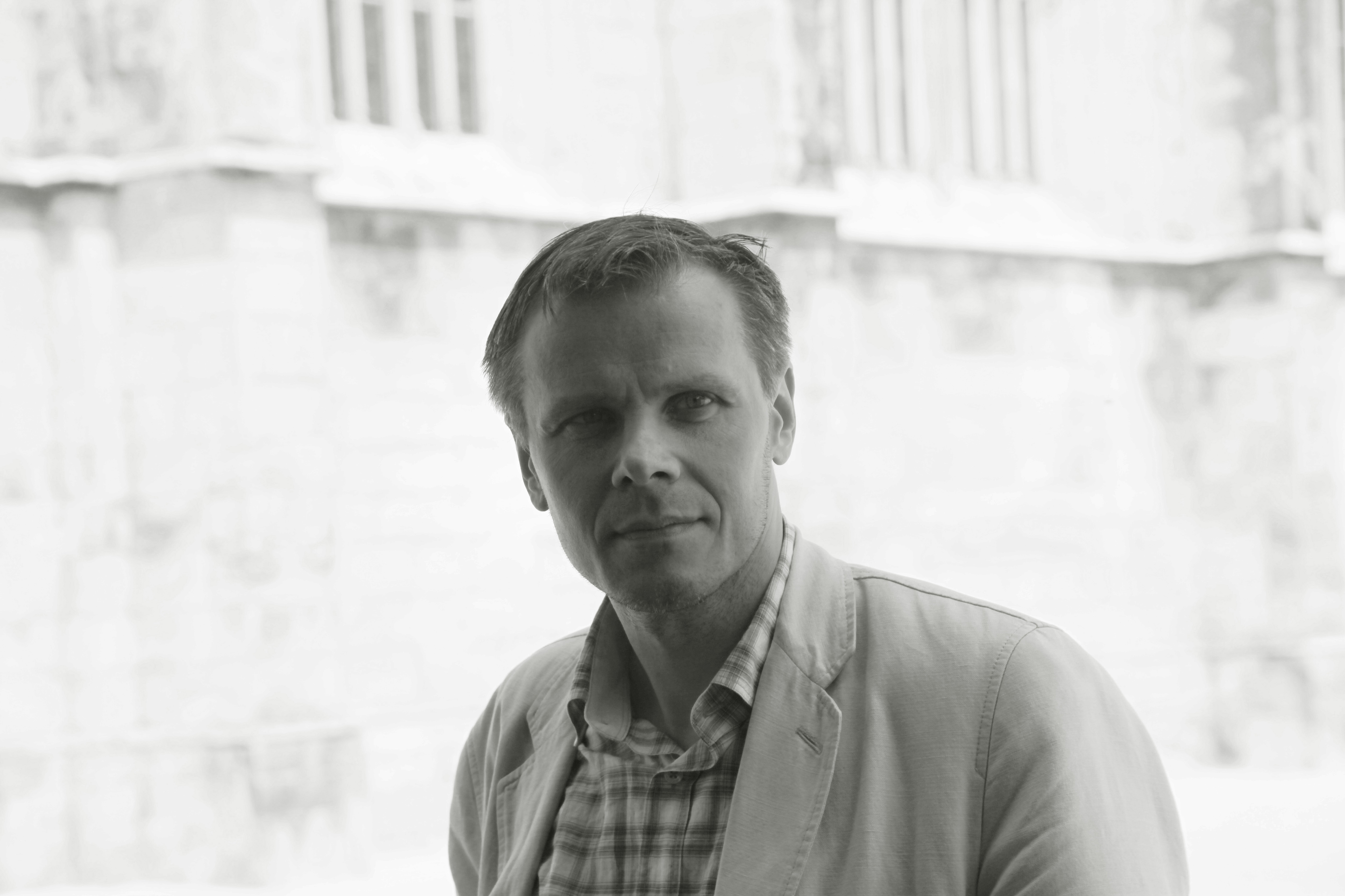 Artist, creator of Europos Parkas and Liubavas museums